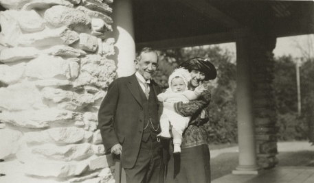 Benjamin N. Duke with daughter Mary Duke Biddle and infant granddaughter Mary Semans